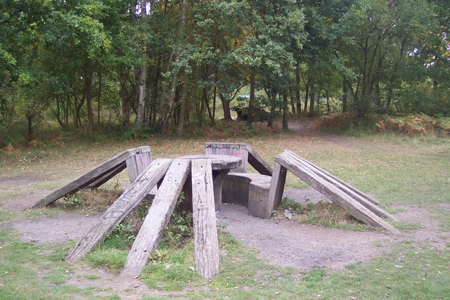 The Winding Wheel Seat, Clowes Wood This seat made by Tim Norris. Is in a rest area beside the Winding Wheel Pond, beside the Crab and Winkle Way Cycle path in between Canterbury and Whitstable.